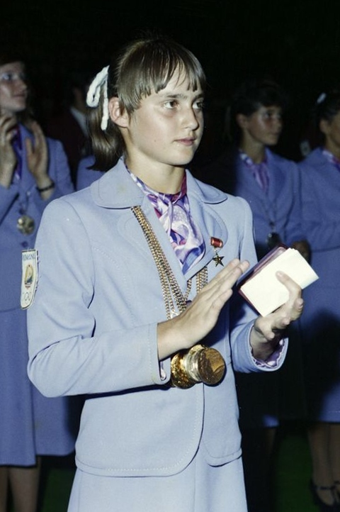 Nadia Comăneci at the 1976 Olympics